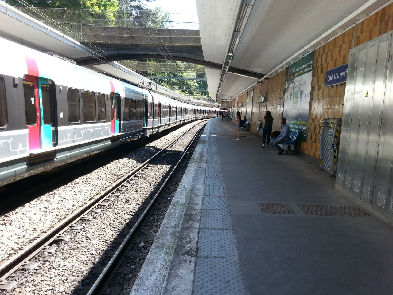 Cité universitaire station, on the B line of the RER of Île-de-France.